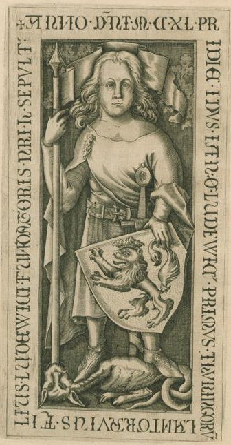 Louis I of Thuringia